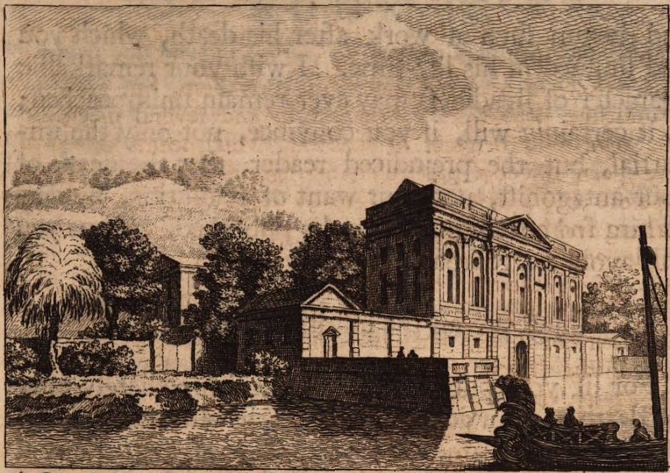 Imaginary depiction of Pliny the Younger's villa on Lake Como, known as Villa Commedia or the Comedy Villa. The villa had been completely destroyed by the 16th century.